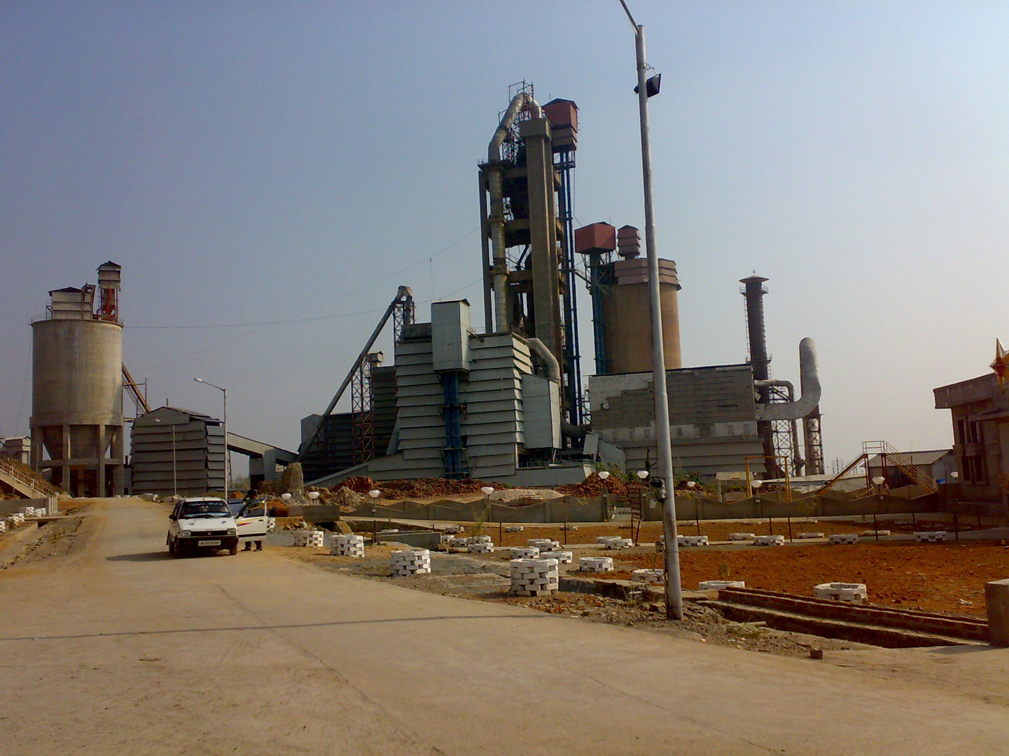 View of MCL Cement plant, Lumnshnong, Jaintia Hills, Meghalaya.